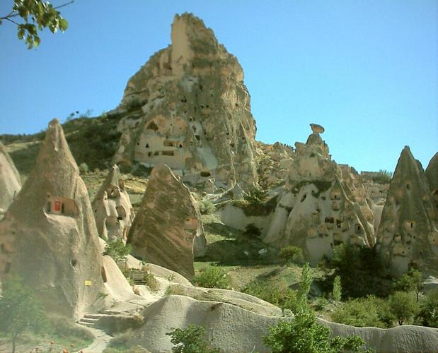 Rock houses in Cappadocia, Turkey